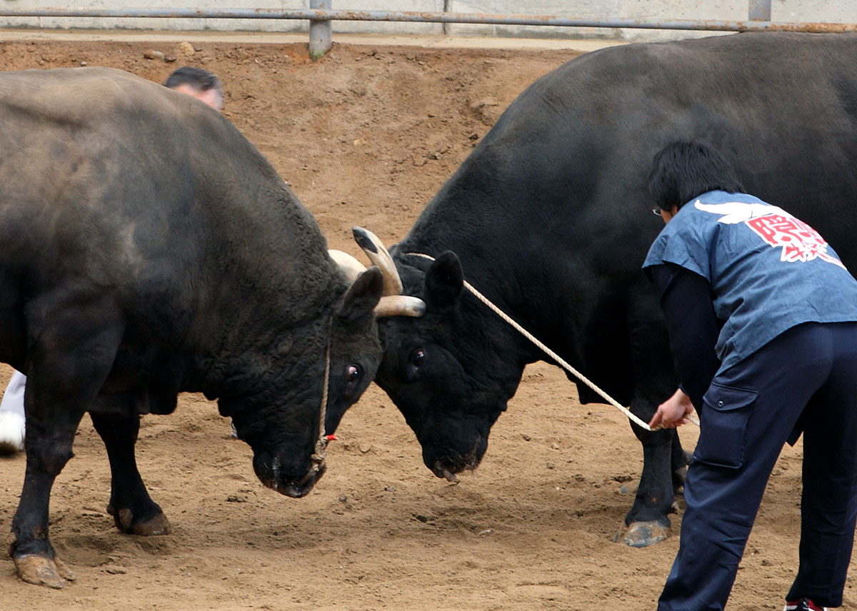 Traditional bull fighting (Ushi-Tsuki) in Oki Islands, Japan.